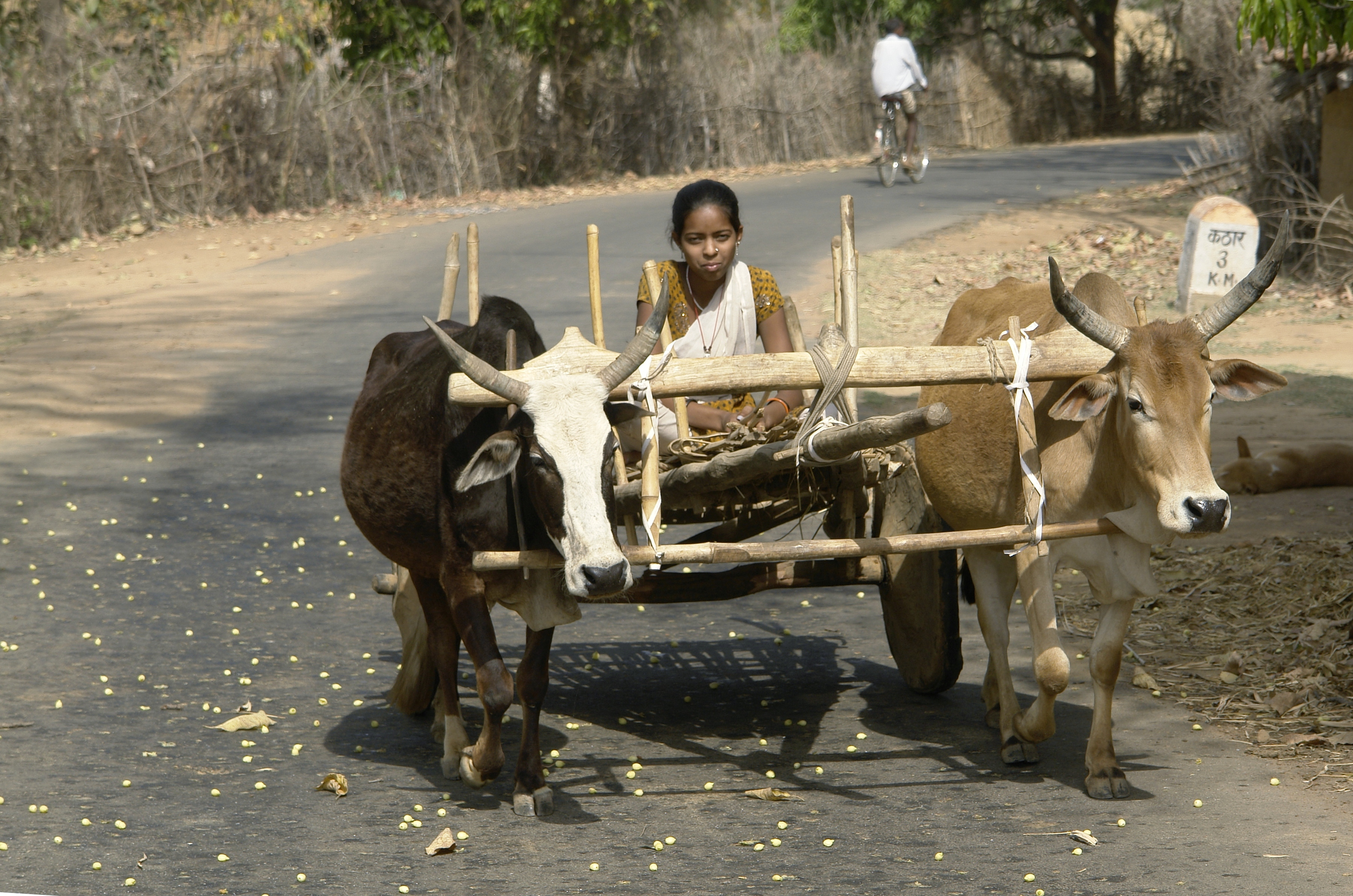 Girl on a bullock cart, Umaria district, Madhya Pradesh, India.